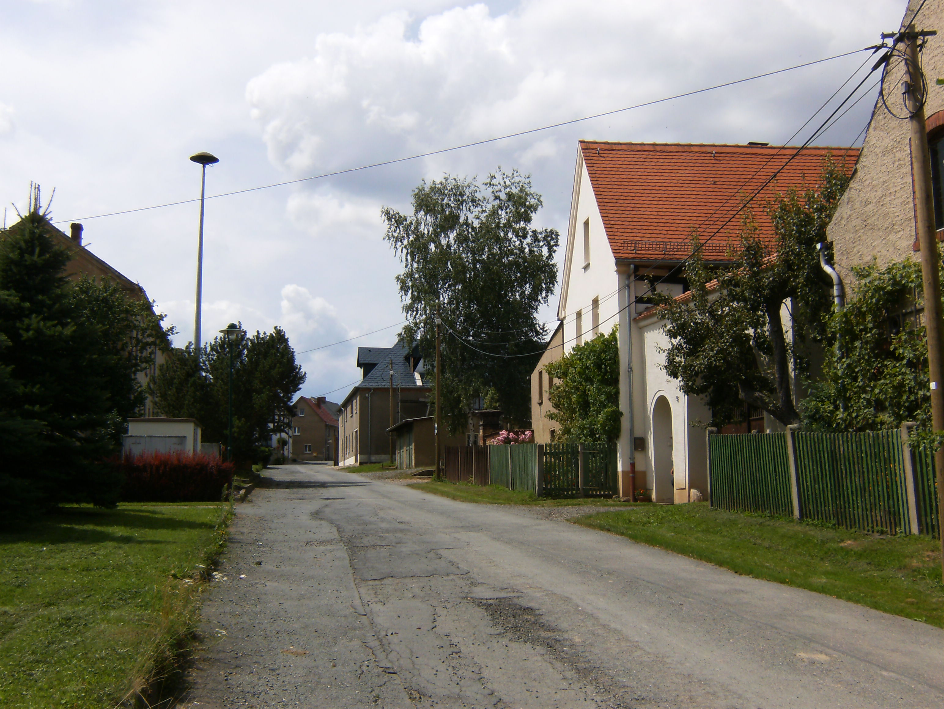 Gera Negis, village part.